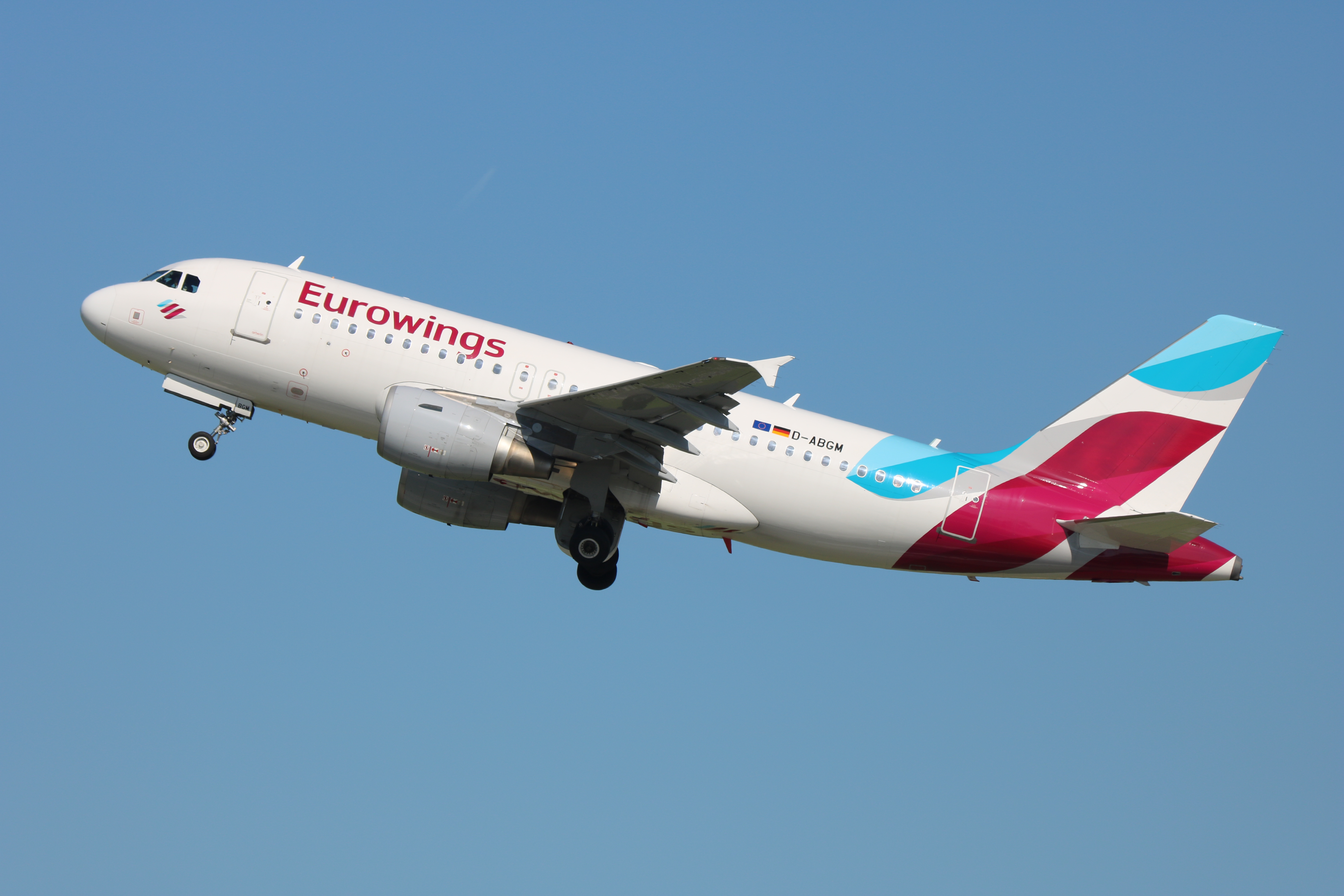 Flughafen Düsseldorf, Airbus A319-100 (D-ABGM) der Eurowings, operated by airberlin